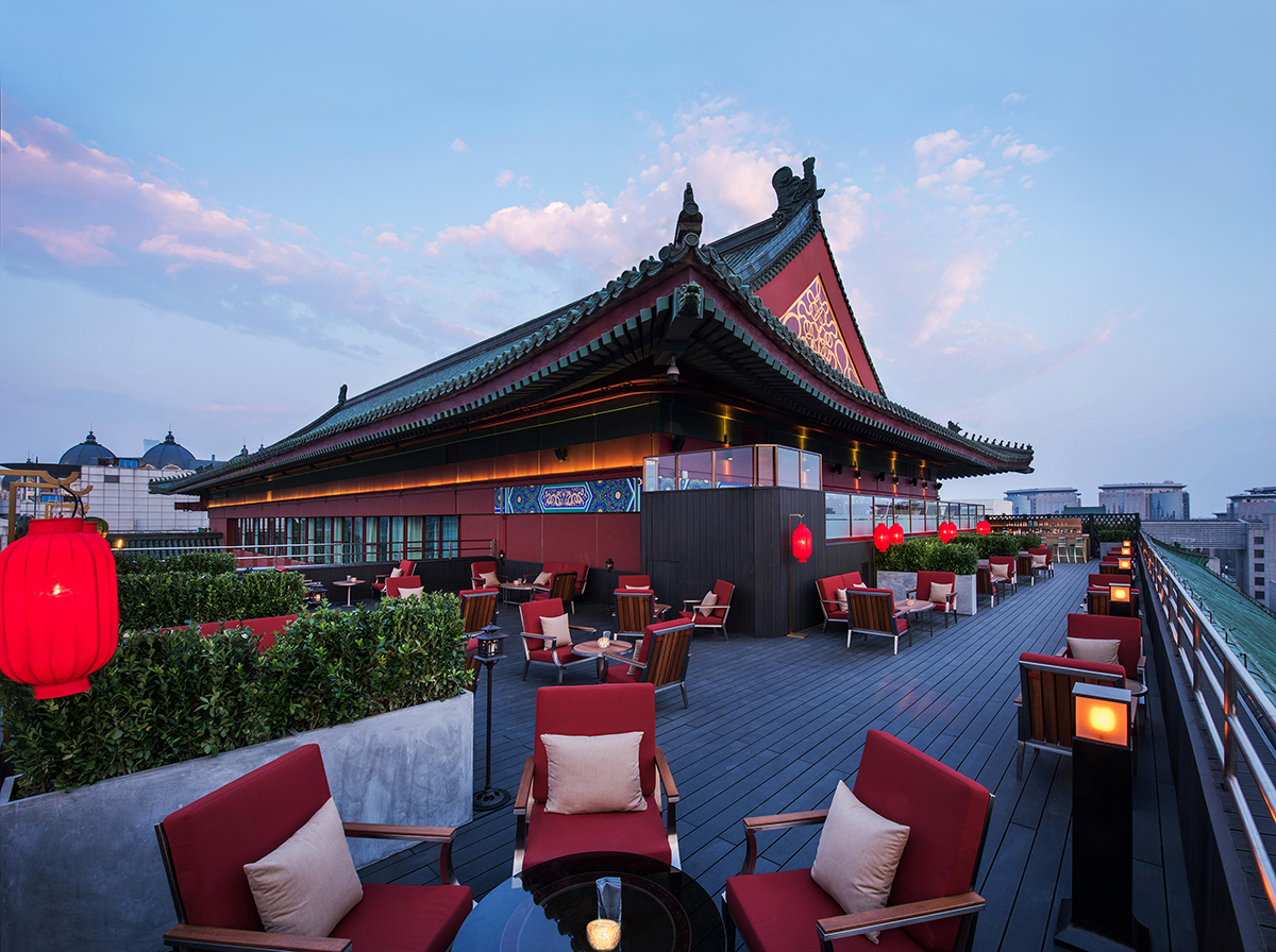 The Peninsula Beijing Yun Summer Lounge